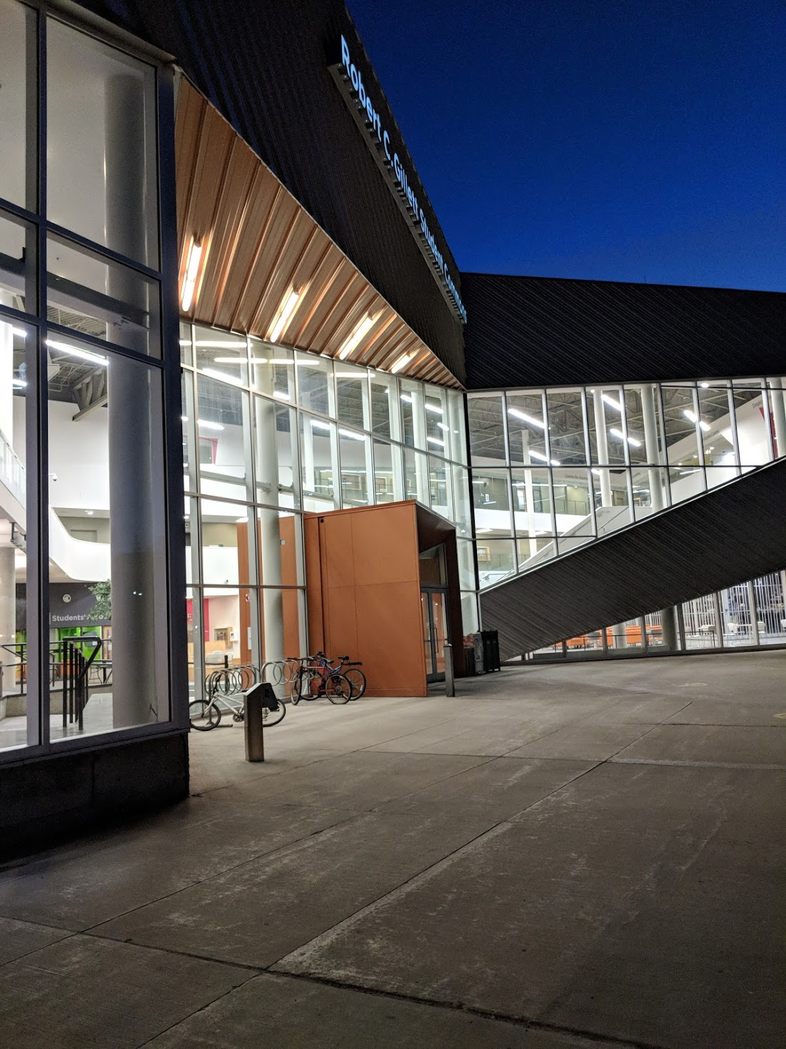 Student Commons at night